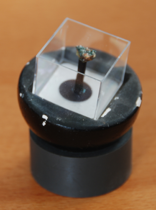 Kneecap for micromount boxes.